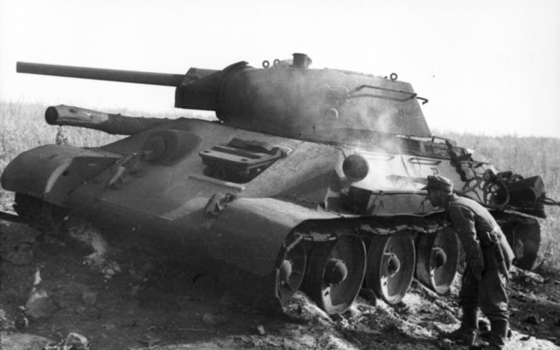 Information added by Wikimedia users.